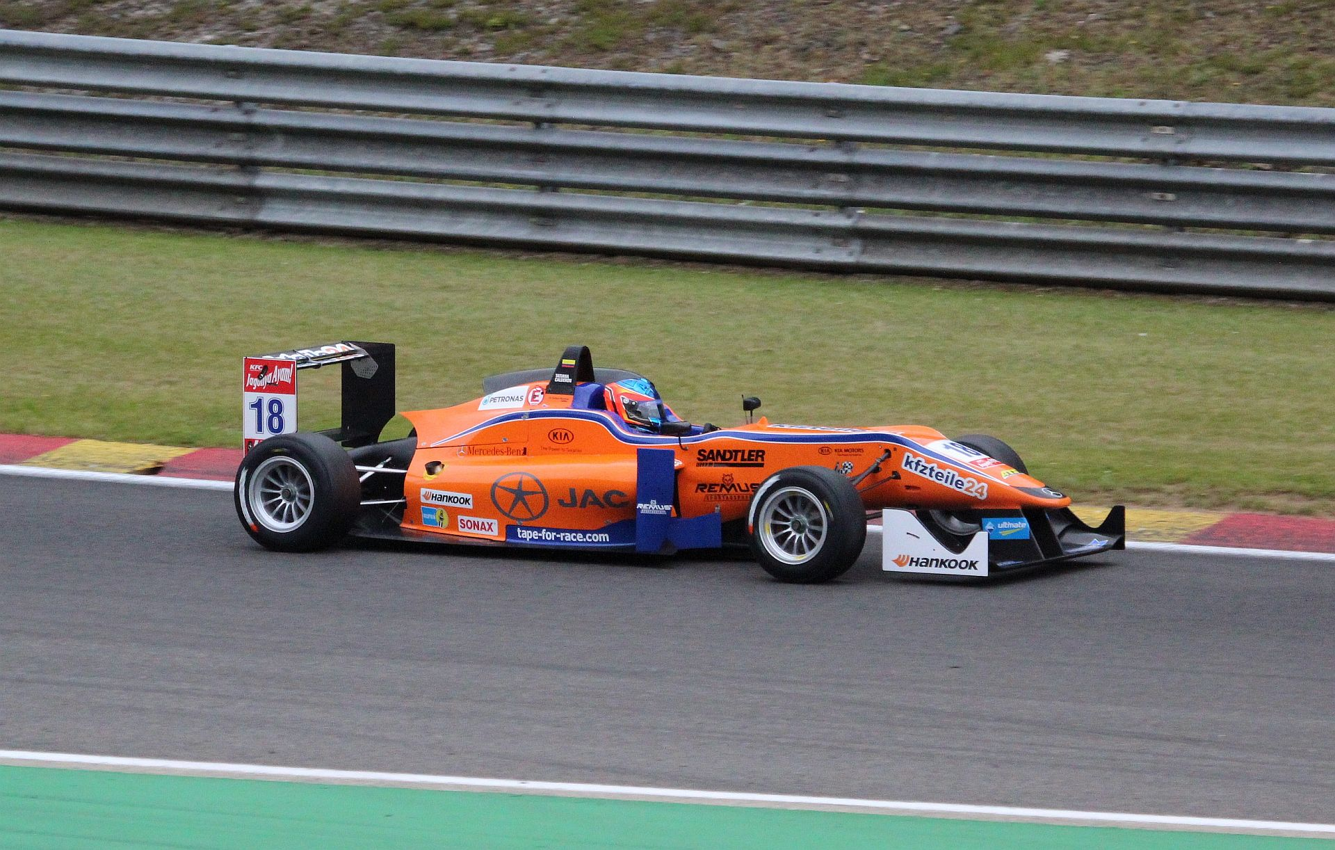 Tatiana Calderón at Spa in 2014, European Formula 3 Championship